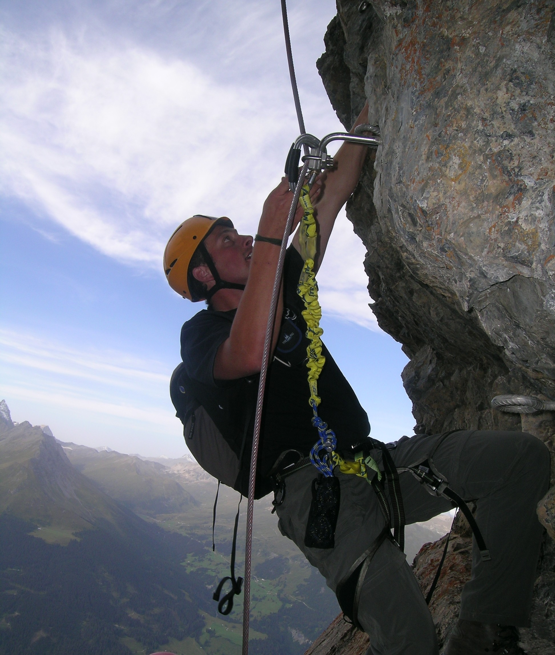 Climber on fixed rope route Piz Mitgel, Savognin, Grisons, Switzerland